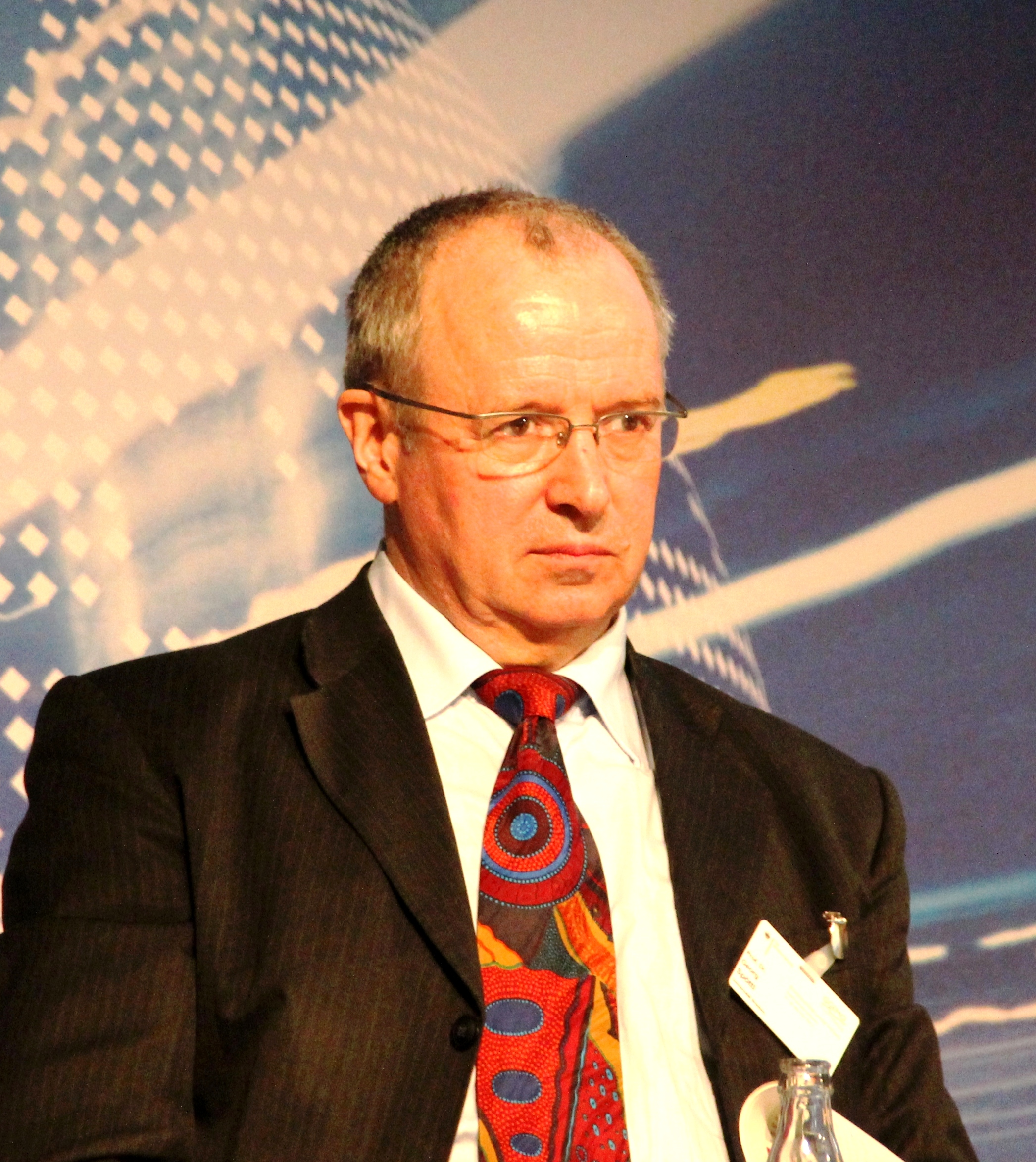 Georg Spöttl, Professor at the University of Bremen (Germany)